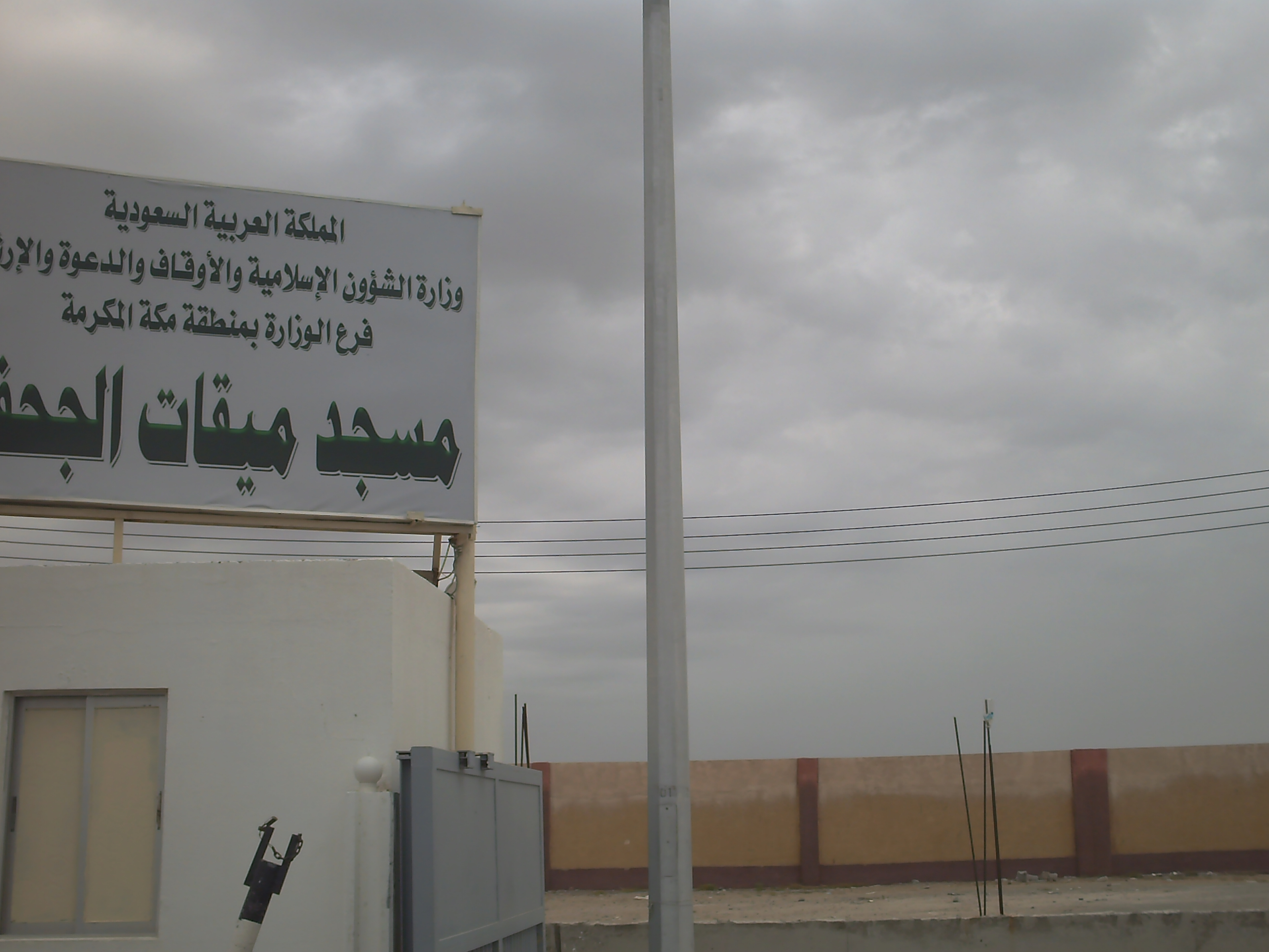 Ghadir_Al-Khumm_,Johfa